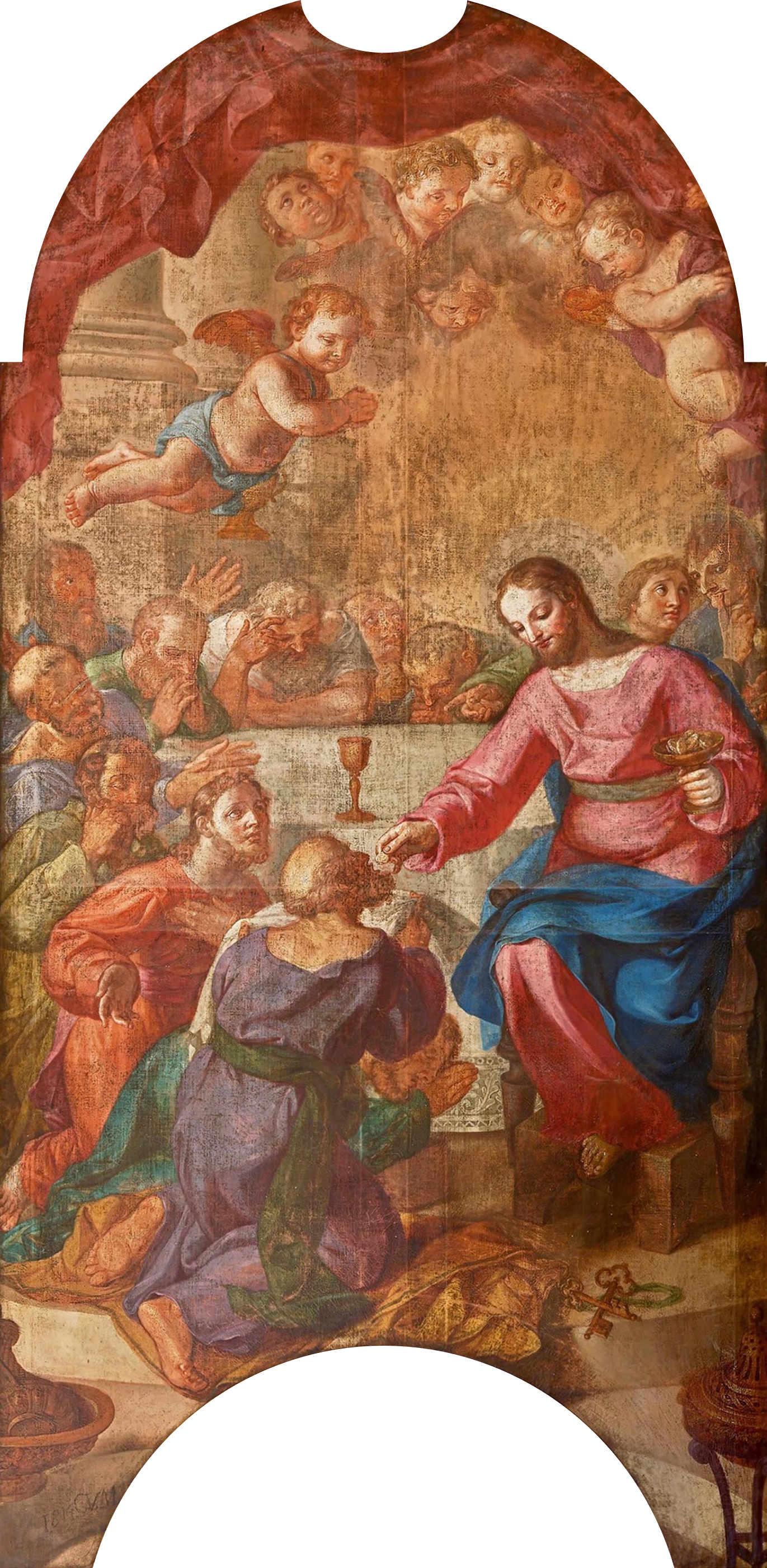 Last Supper (1814), by Cirilo Volkmar Machado; in the Church of São Sebastião da Pedreira, Lisbon, Portugal.